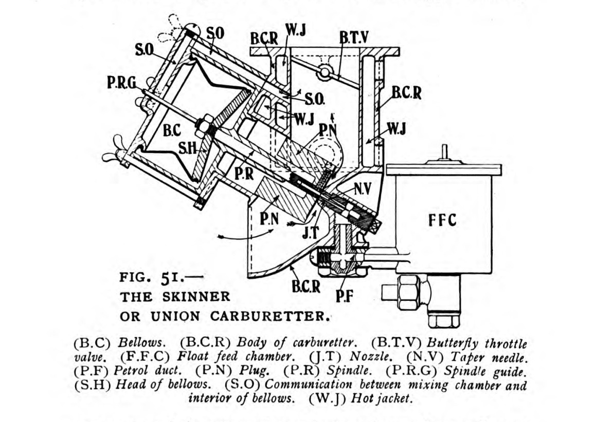 Diagram of a petrol-engine carburettor in cross-section